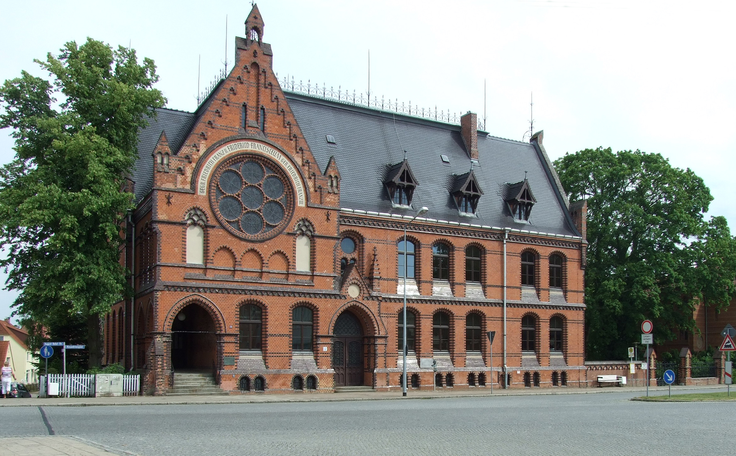 Friderico-Francisceum-Gymnasium